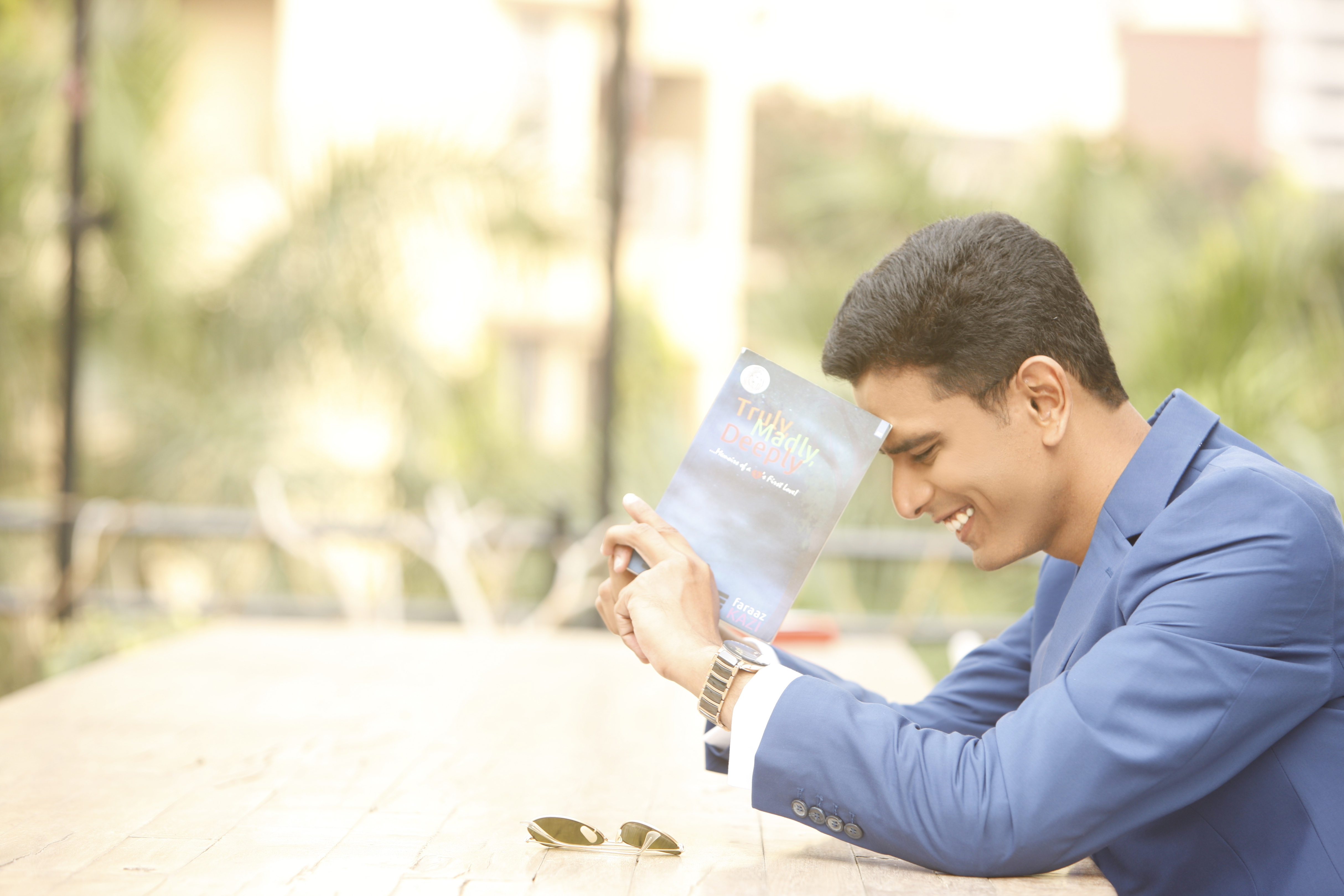 Picture of Faraaz Kazi with his debut novel, Truly Madly Deeply